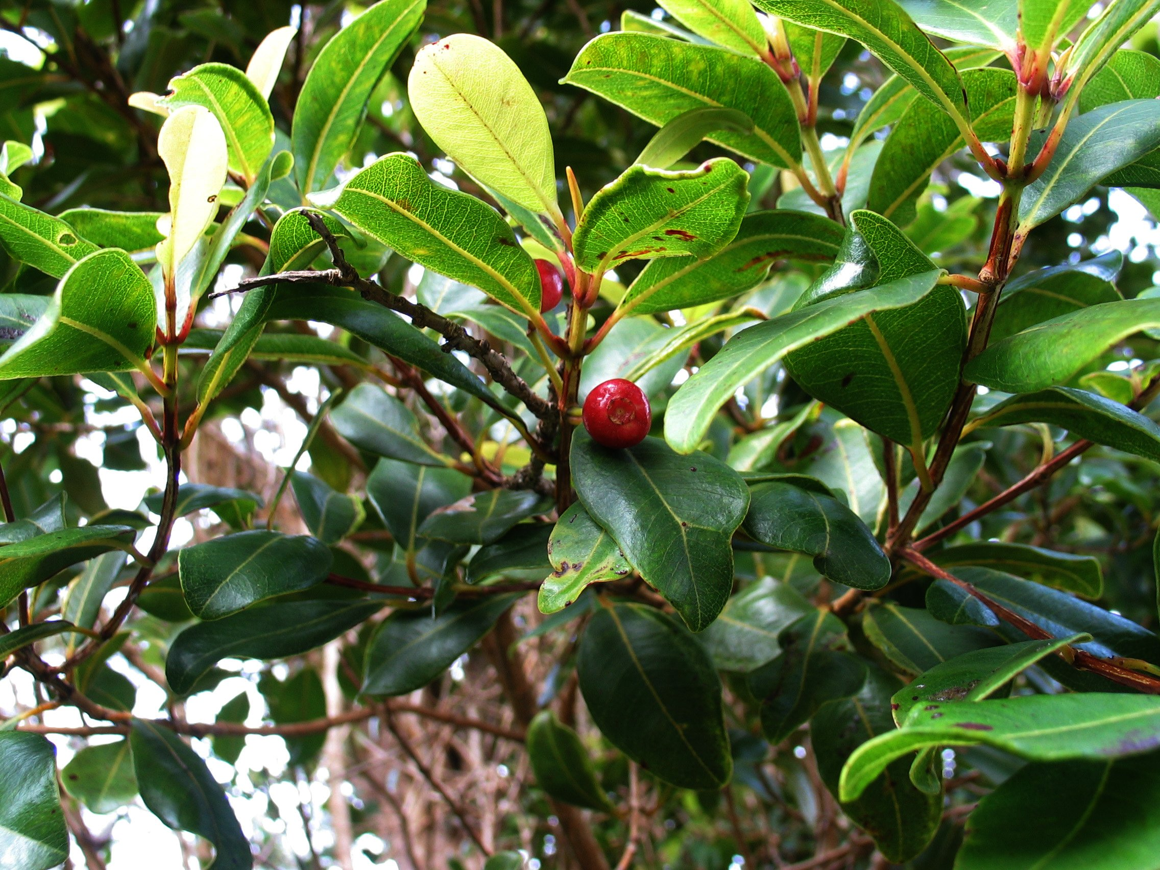 ʻŌhiʻa hā or Hā Myrtaceae Endemic to the Hawaiian Islands Kalauao Trail, Oʻahu